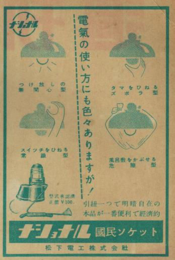 Advertisement of National Kokumin Socket, by Matsushita Electric Works, on Shukan Asahi, in 1950.